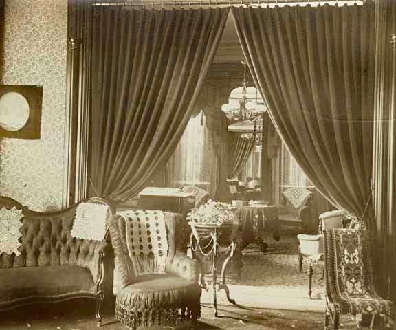 Alexander Ramsey House reception room ca. 1884.